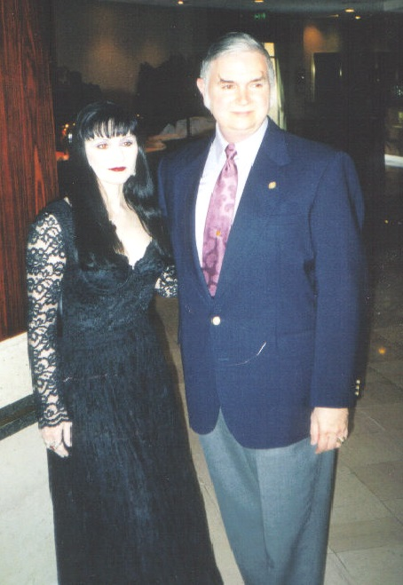 Michael Aquino with then-wife Lilith, at 1999 Los Angeles Conclave.